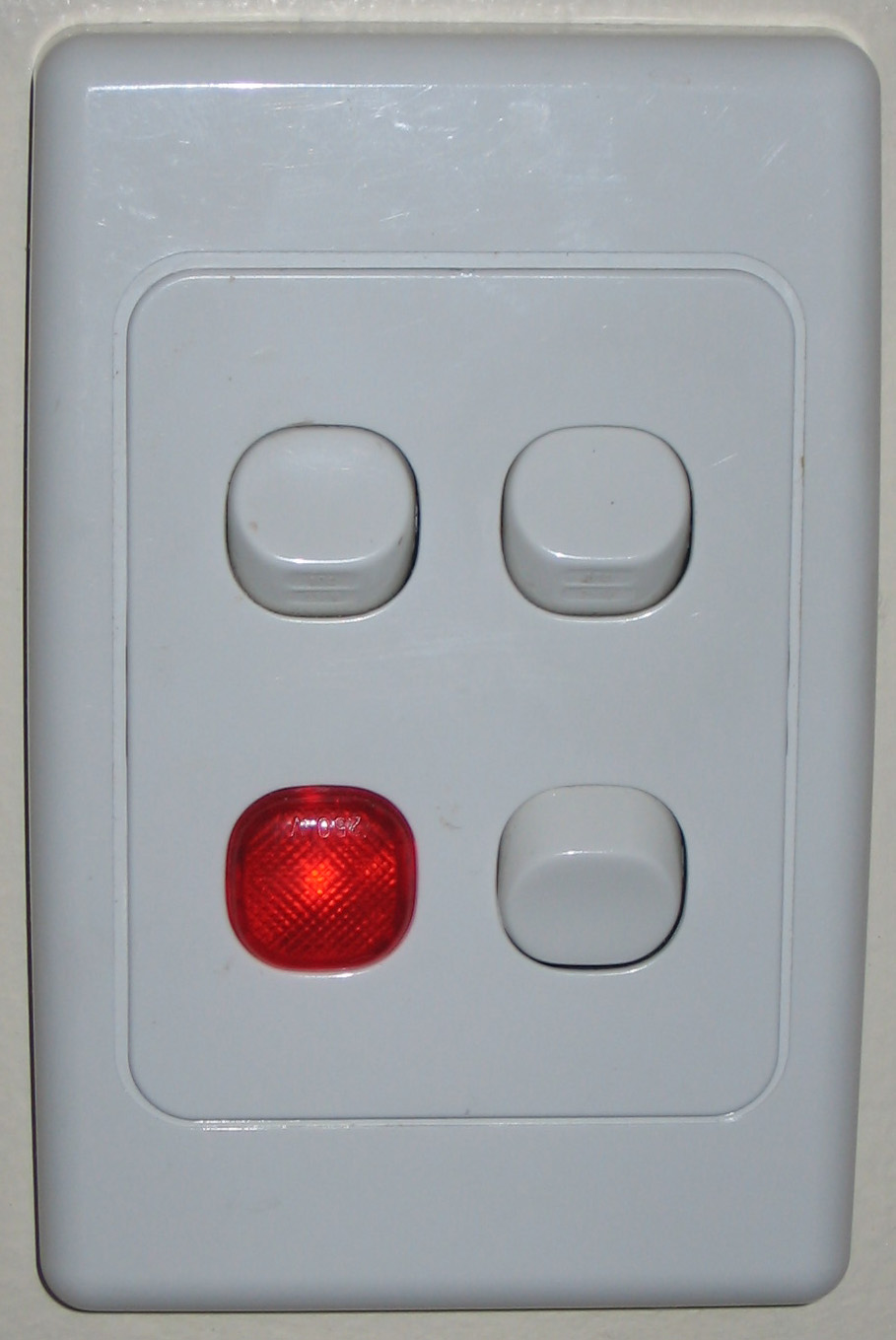 An Australian four gang wall plate - with three light switches and one "neon" indicator